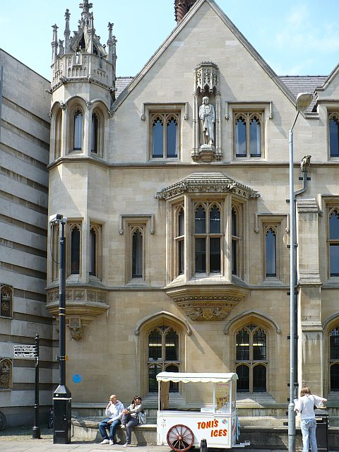 Scott's Building, King's College The left hand building of King's College as viewed from Trumpington Street. Note the blue plaque .